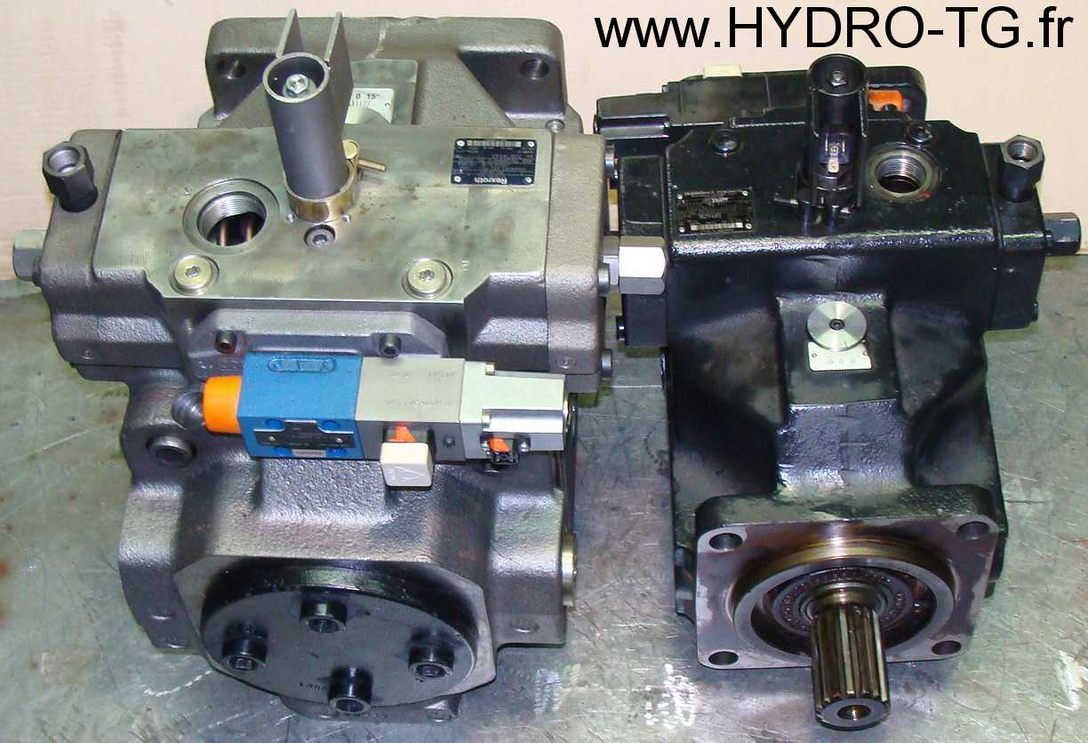 Rexroth hydraulic pump A4VSO250 and hydraulic pump Bruninghaus A4VSO180.